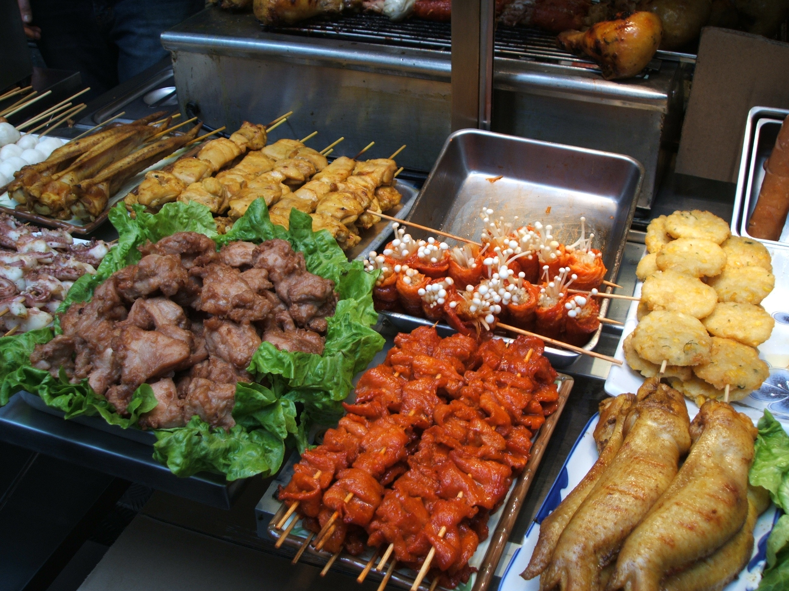 Street food in Hong Kong